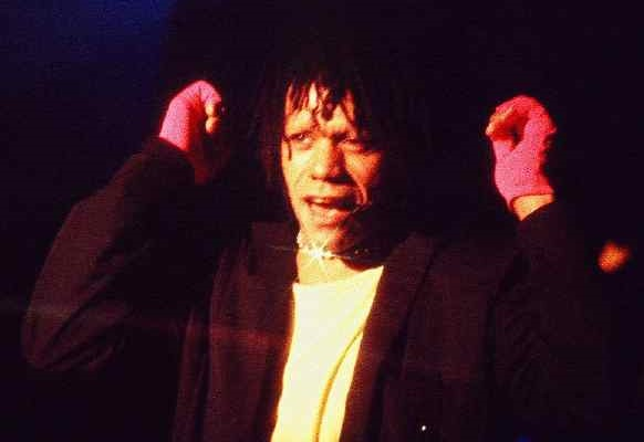 Joe Leeway, Thompson Twins, Bristol Hippodrome